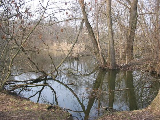 The "Nikolassee" in Berlin